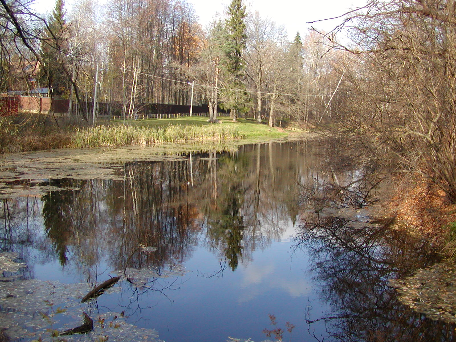 Ababurovo's pond in autumn